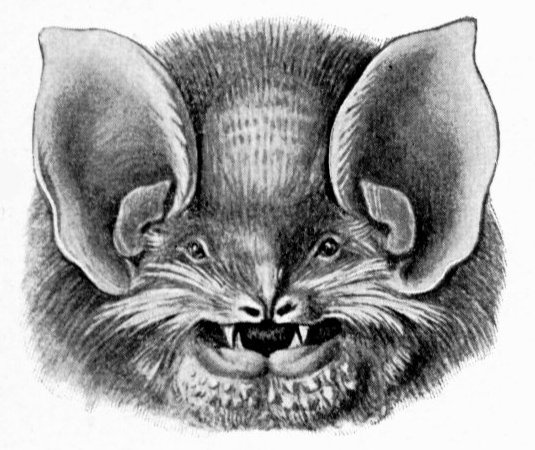 Natalus stramineus Gray, 1838, head from front